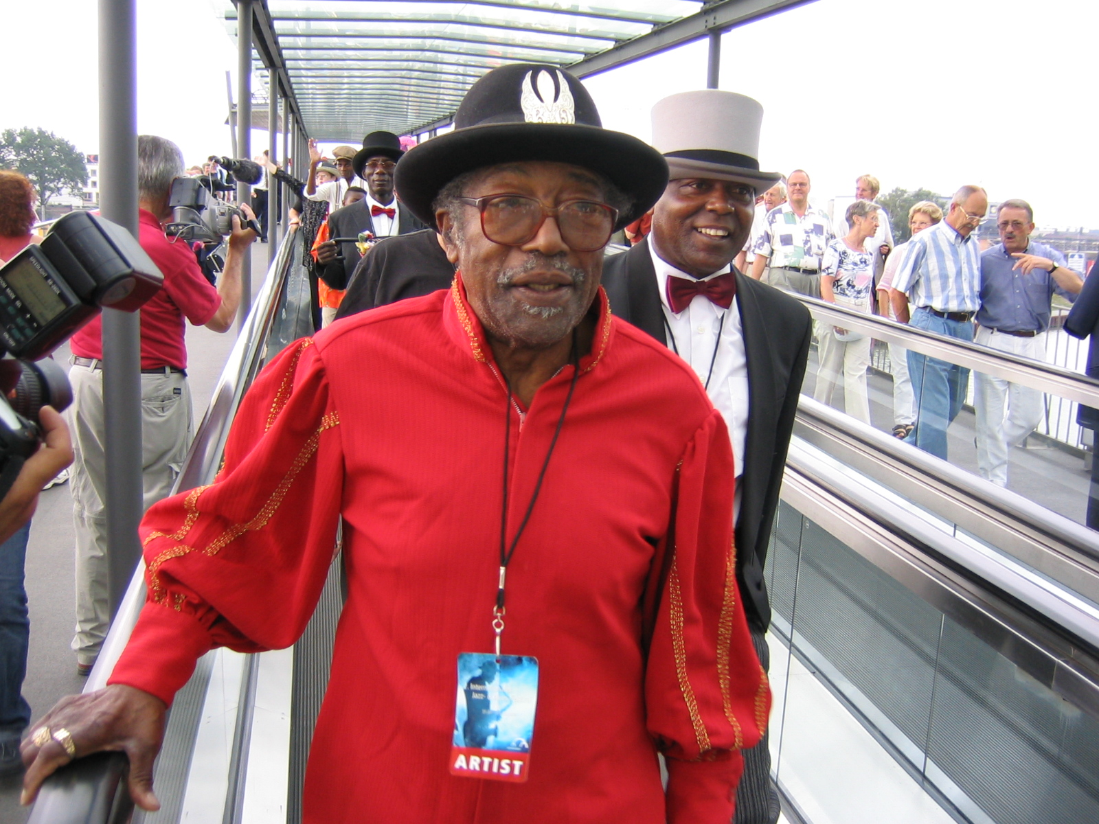 Bo Diddley in Wolfsburg (Autostadt)